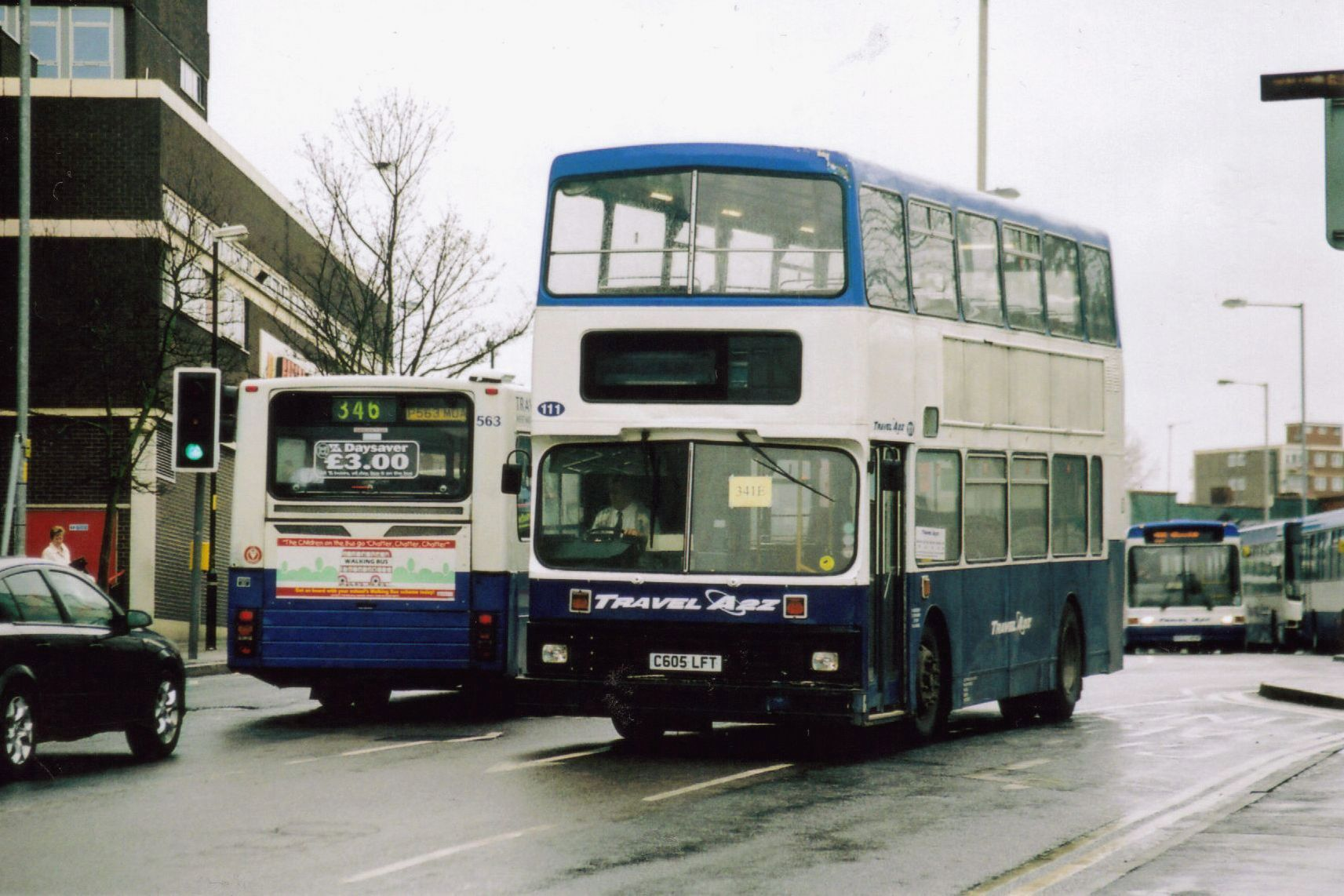 A2Z Travel bus 111 (reg. C605 LFT), a 1986 Leyland Olympian double-decker with Alexander RH bodywork, pictured operating in Walsall, shortly before the company closed down. It was new to Tyne & Wear PTE as their fleet no. 605, in their C610-665 LFT registered batch (nos. 601-665), which was distinctive for their oversize front black bumpers. Going the other way is Travel West Midlands bus 563 (reg. P563 MDA), a 1997 Volvo B6LE midibus with Wright Crusader bodywork, operating route 346.